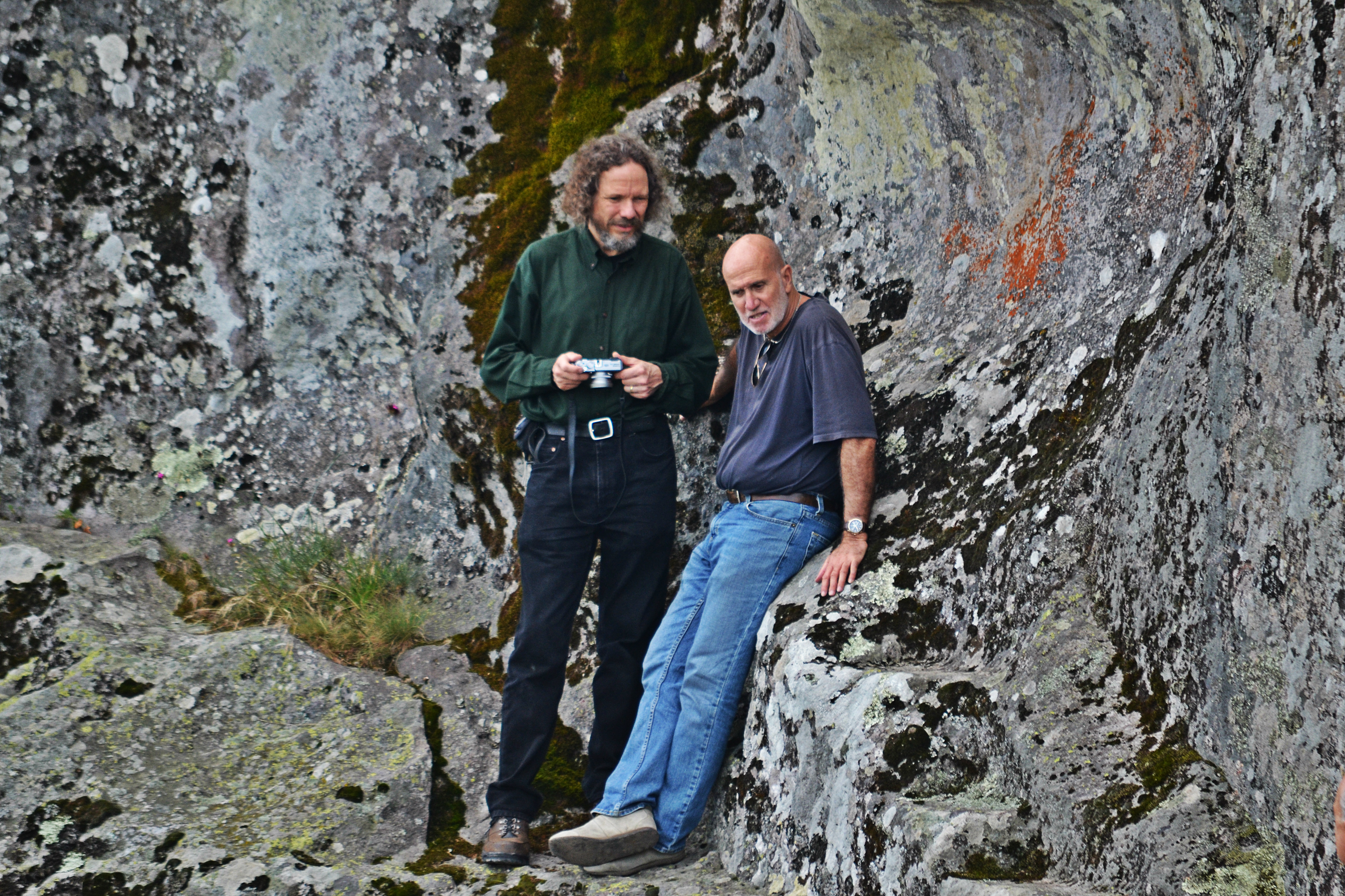 Robert Bauval and Robert Schoch at Belintash, 2014